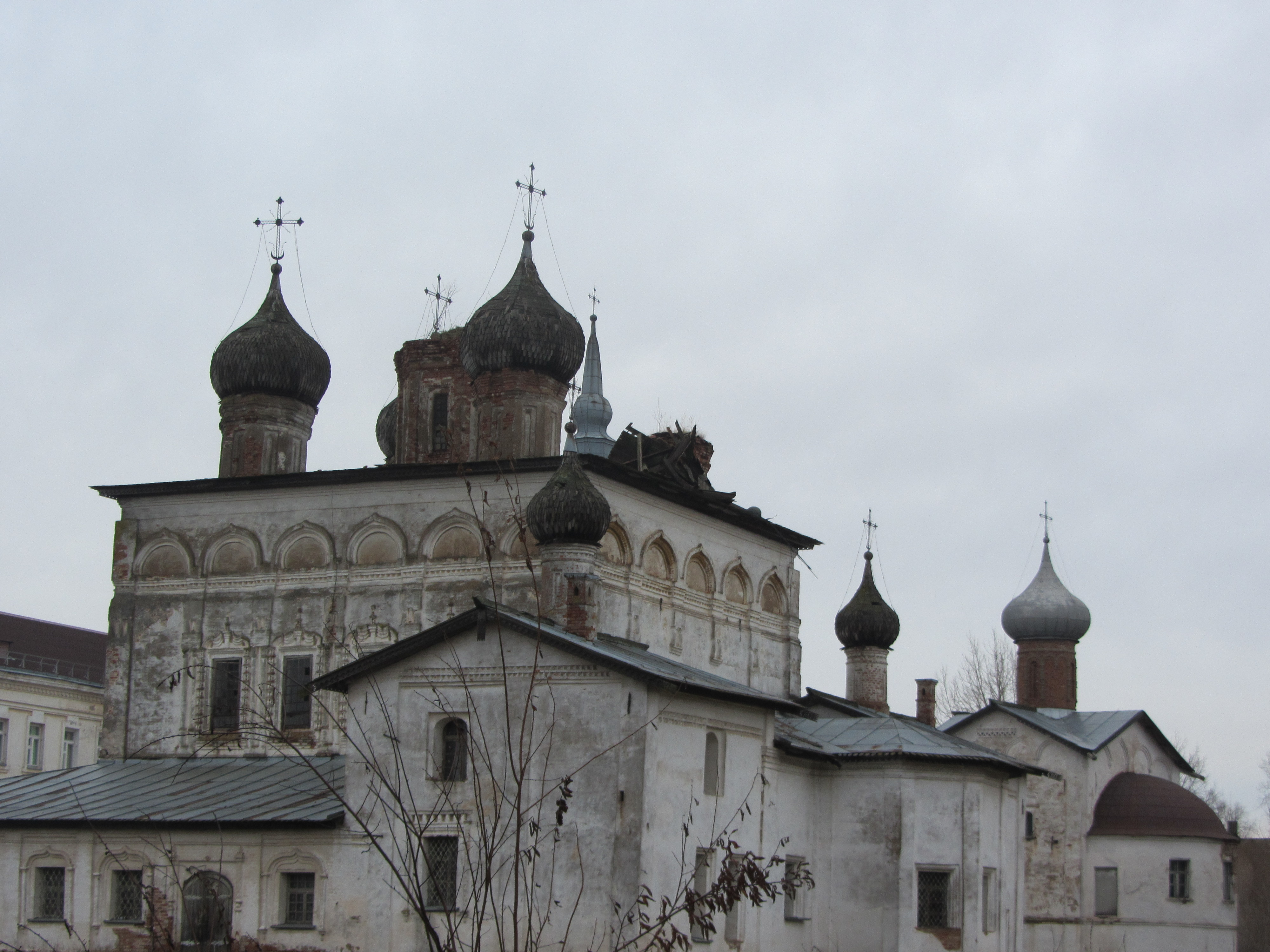 Derevyanitsky Monastery. November 2013